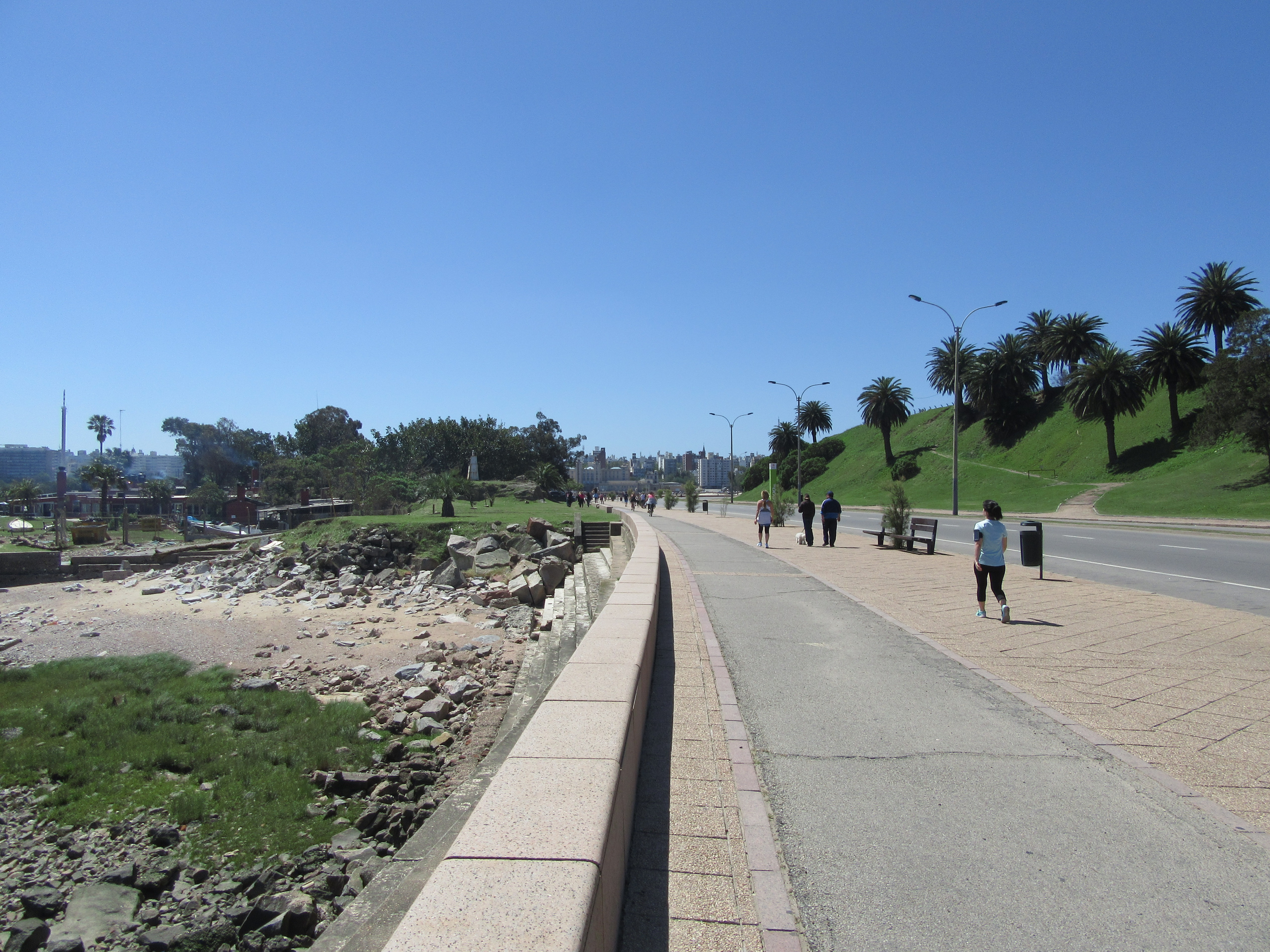 Montevideo